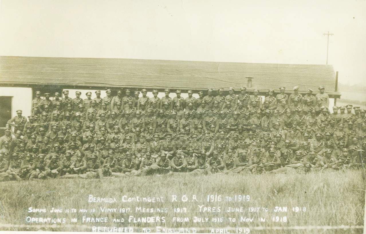 The Bermuda Contingent of the Royal Garrison Artillery (BCRGA) in Europe during the First World War. The contingent was composed of volunteers for overseas service from the Bermuda Militia Artillery, which was already embodied for annual training when the war began and remained embodied for full-time service for the duration of the war. Militia terms of service were for home defence only, and soldiers could not be compelled to serve overseas. The volunteers for the overseas contingent to serve on the Western Front were consequently re-commissioned or re-attested as regular soldiers for the duration of the war. The BCRGA was actually made up of two drafts. The first, 201 officers and men, under the command of Major Thomas Melville Dill, left for France on 31 May 1916. A second contingent, of two officers and sixty other ranks, left Bermuda on 6 May 1917, and was merged with the first contingent in France.